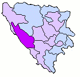 BosniaCanton WestBosnia